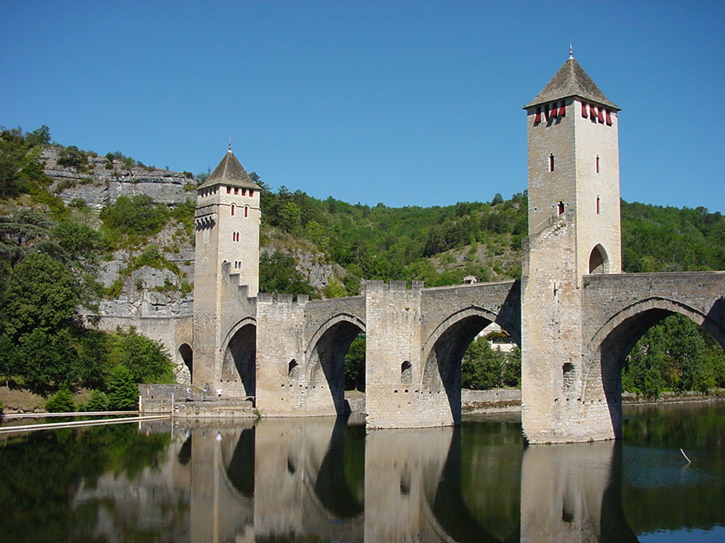 Cahors